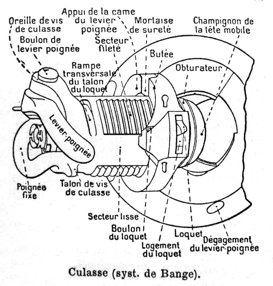 Diagram showing De Bange breech system